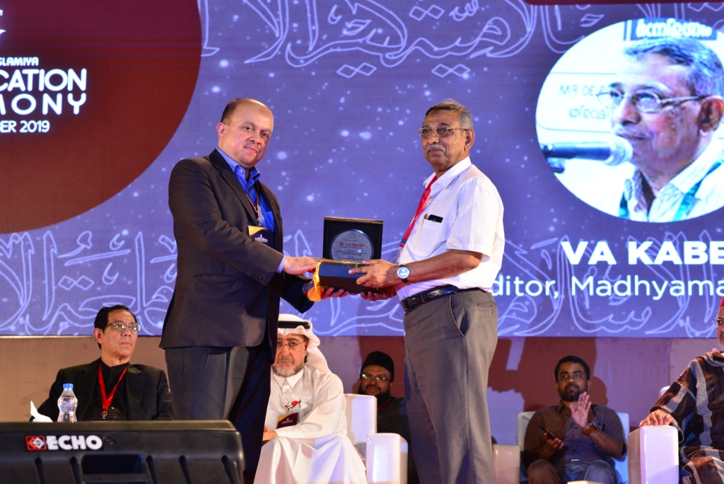 V.A. Kabeer recived the award in the Al Jami'a Al Islamiyah Convocation 2019